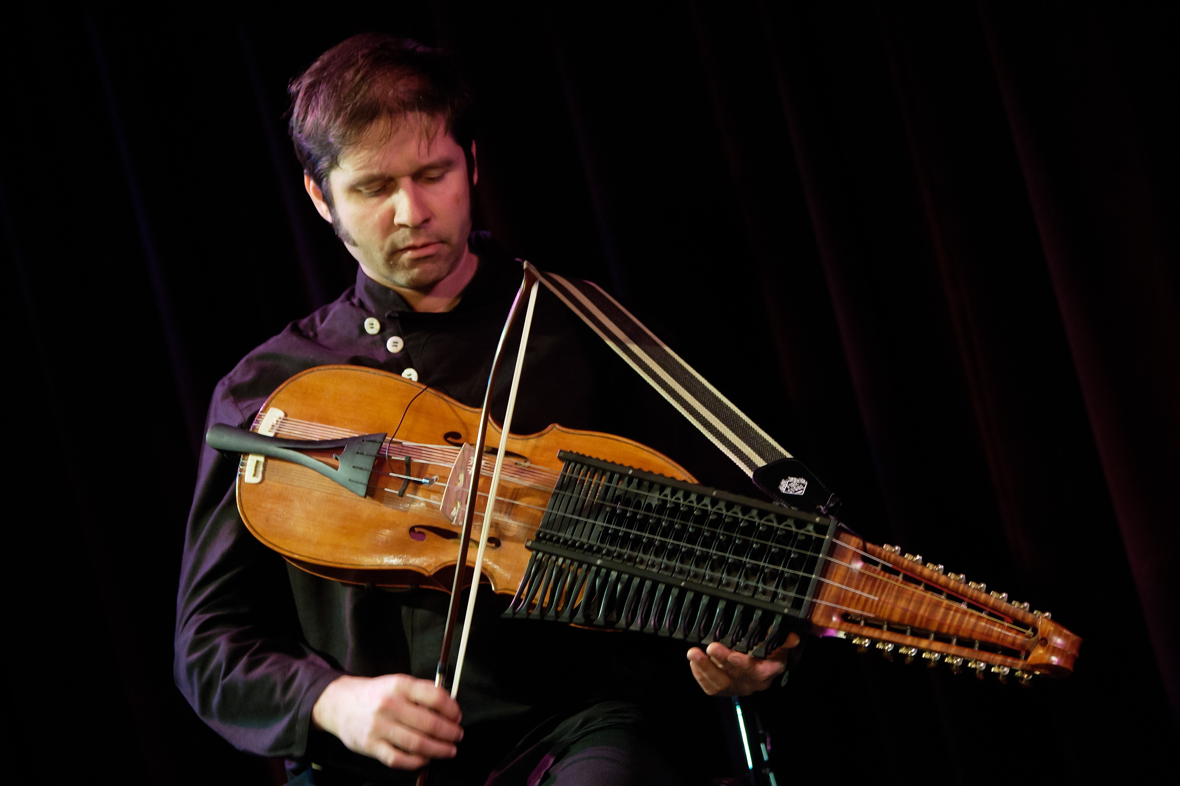 Ronald Rietman